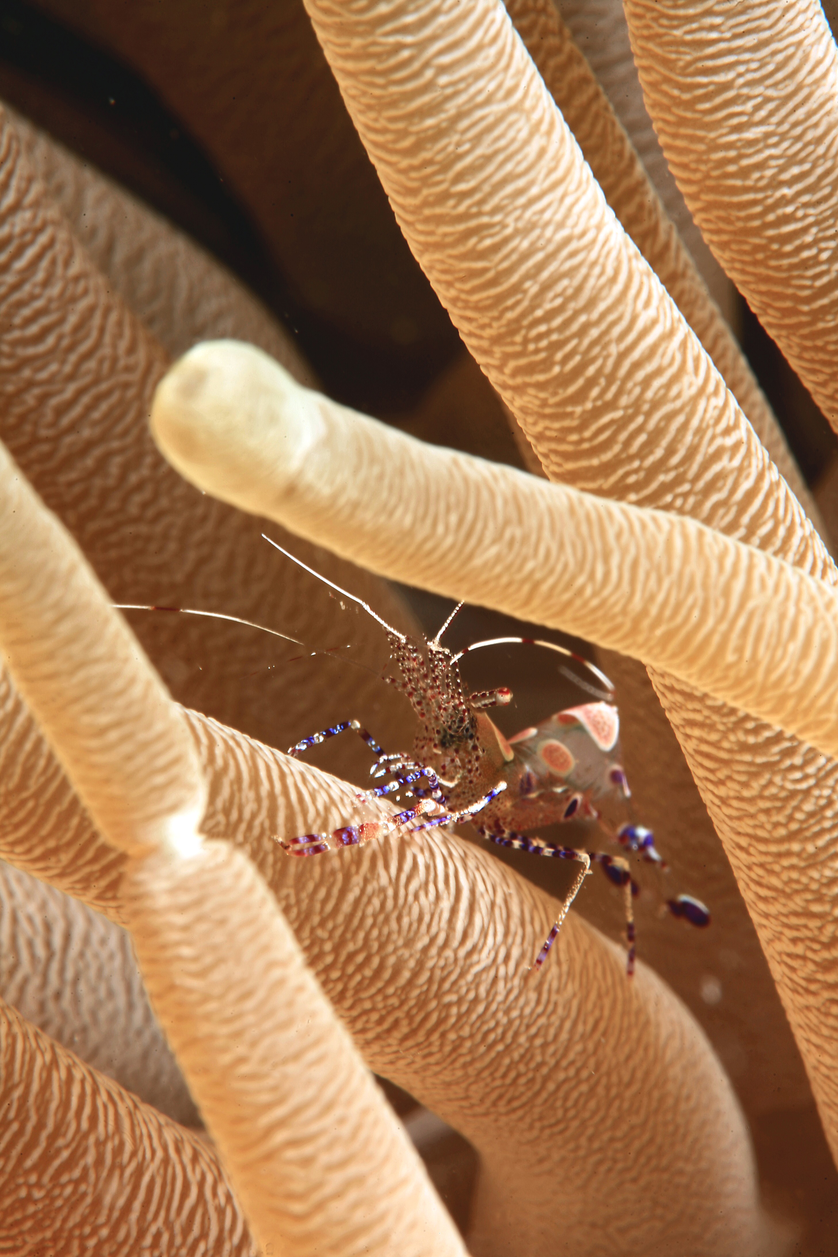 No more than an inch long, the Spotted Cleaner Shrimp hiding among the arms of the giant caribbean anemone performs a vital service on the reef. It emerges from the protection of the anemone to clean parasites from fish that stop by for this service. I photographed this shrimp as it emerged to see if I wanted a cleaning! Periclimenes yucatanicus - Harry's Hole Reef, Soto, Curaçao Netherland Antilles Sigma 105mm F2.8 EX macro lens behind an Ikelite flat port